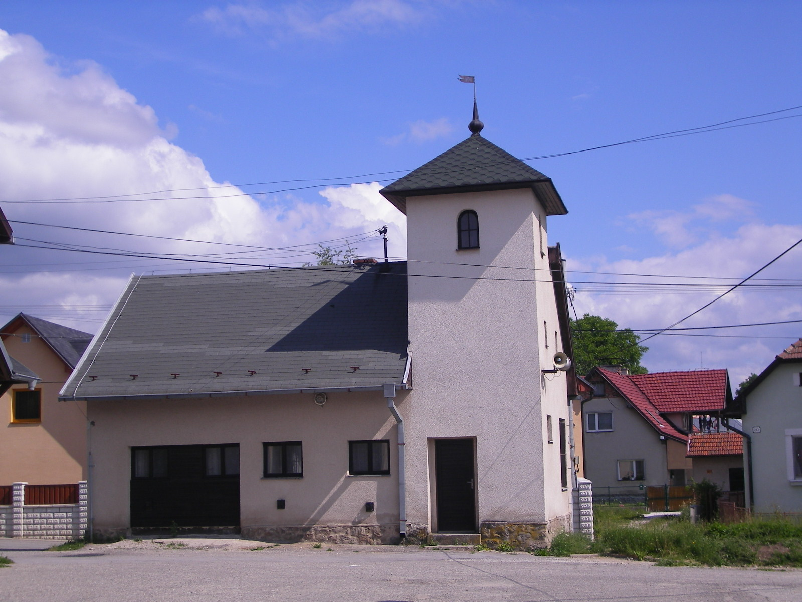 Bystrička